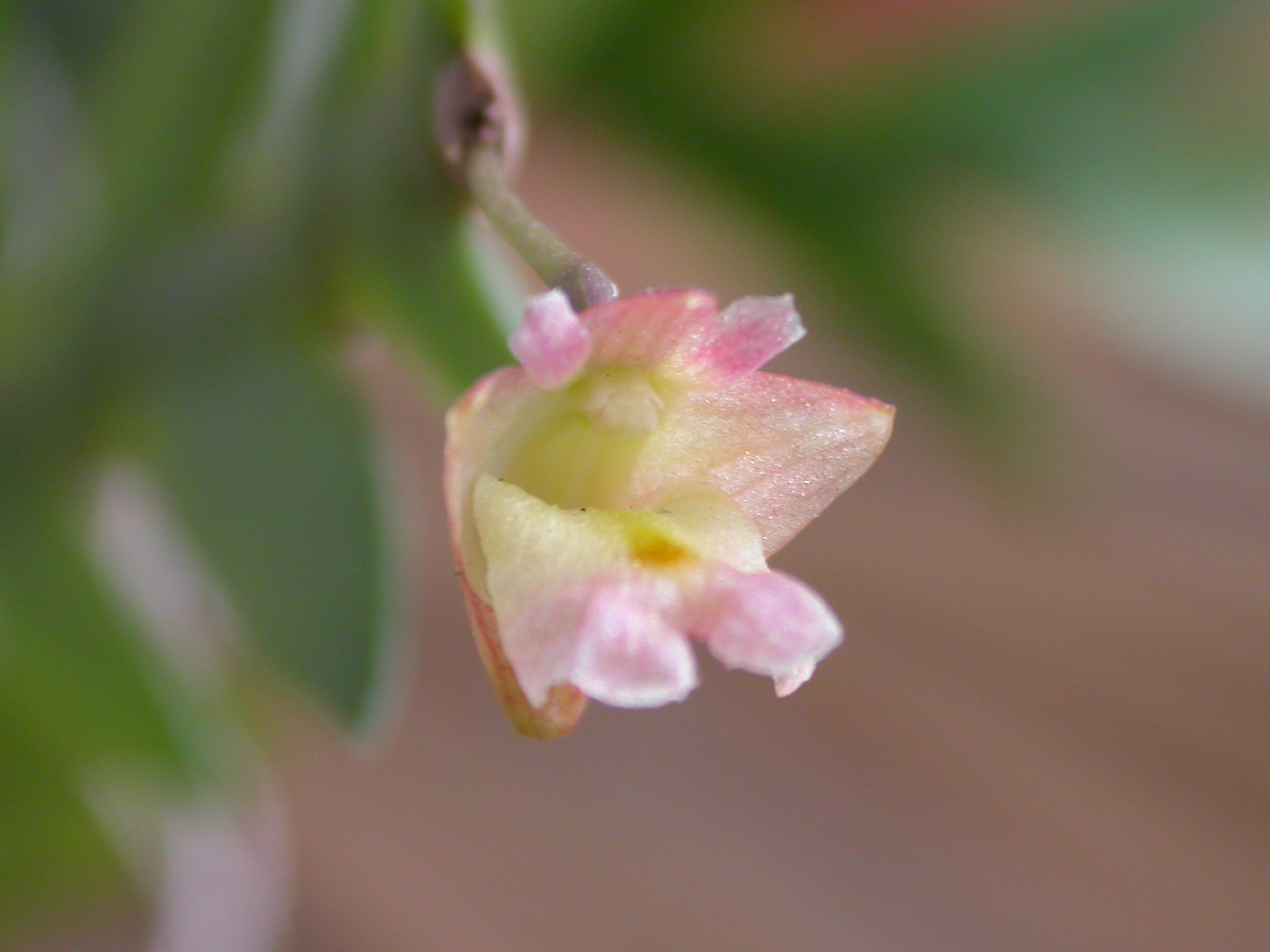 Aporum terminale